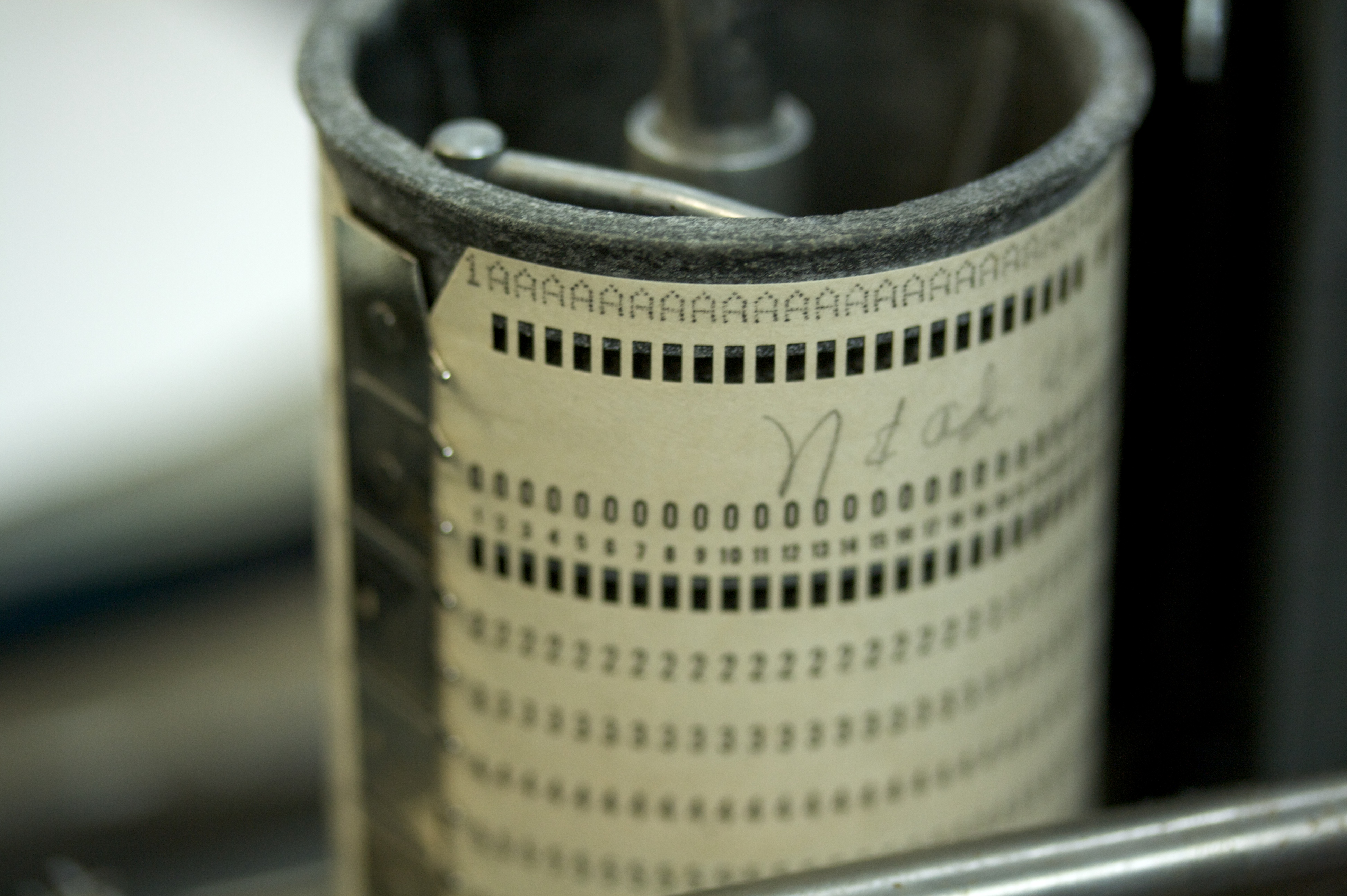 Drum card for an IBM 026 keypunch, photographed at the Computer History Museum.